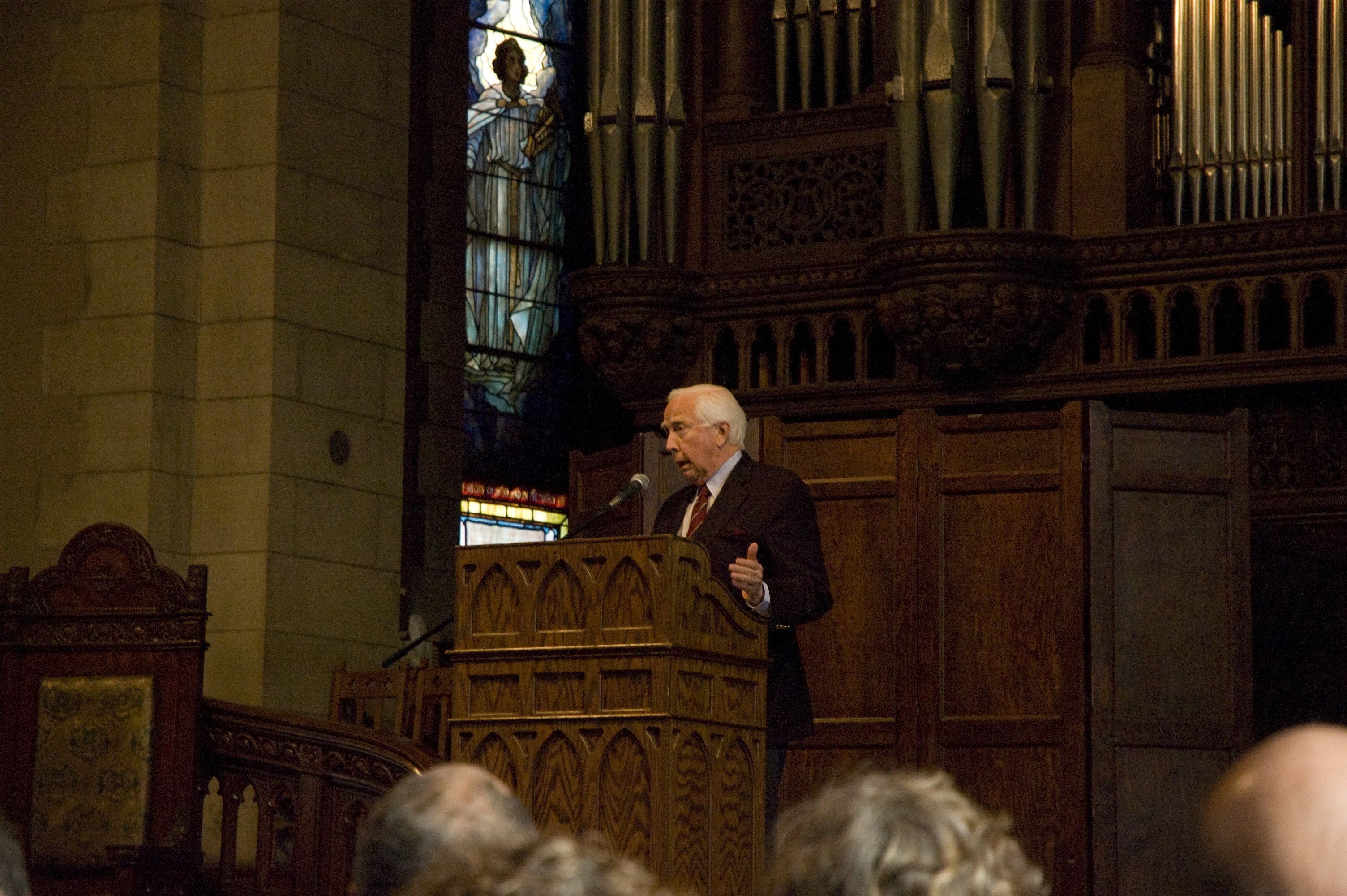 Author and historian David McCullough during a speech.